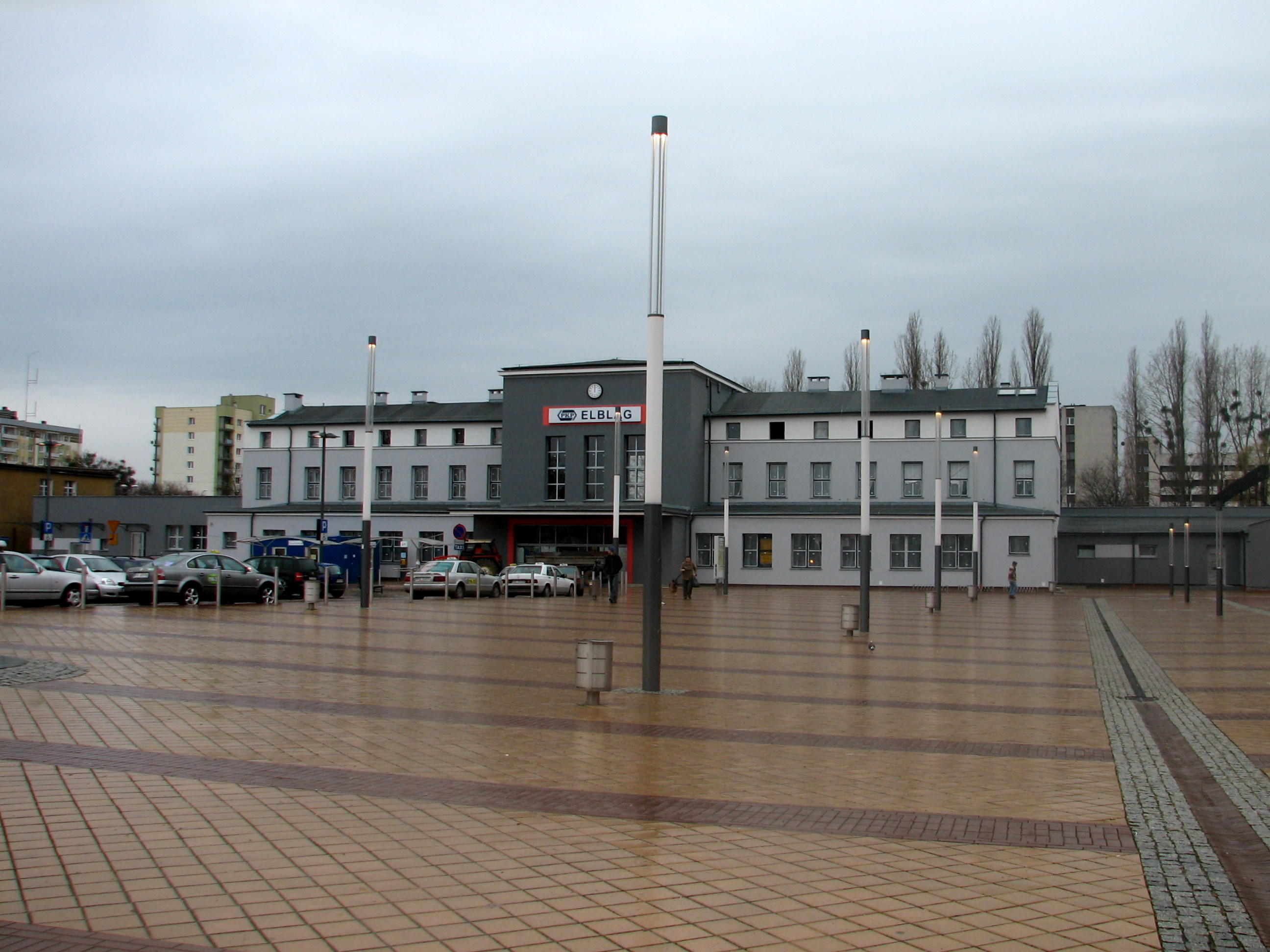 Elbląg train station short time before end of modernization.